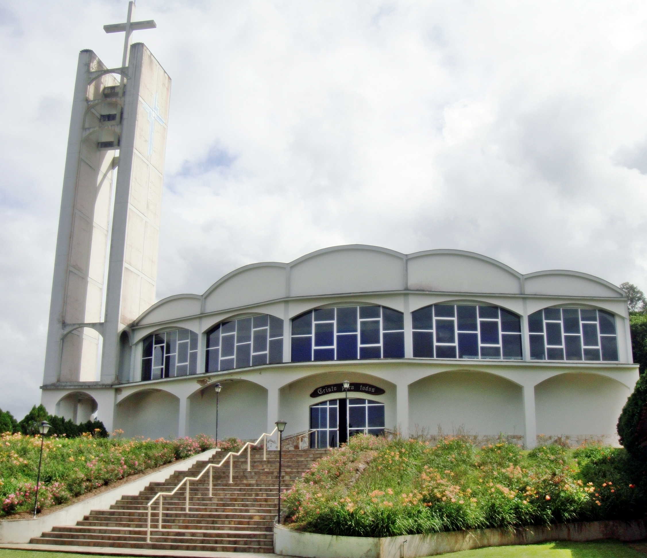 TEMPLE OF THE EVANGELICAL LUTHERAN CHURCH OF BRAZIL, CHRIST CONGREGATION, IN THE CITY OF SCHROEDER IN SANTA CATARINA, BRAZIL. TODAY, THE TEMPLE OF GREATER IELB IN LATIN AMERICA.